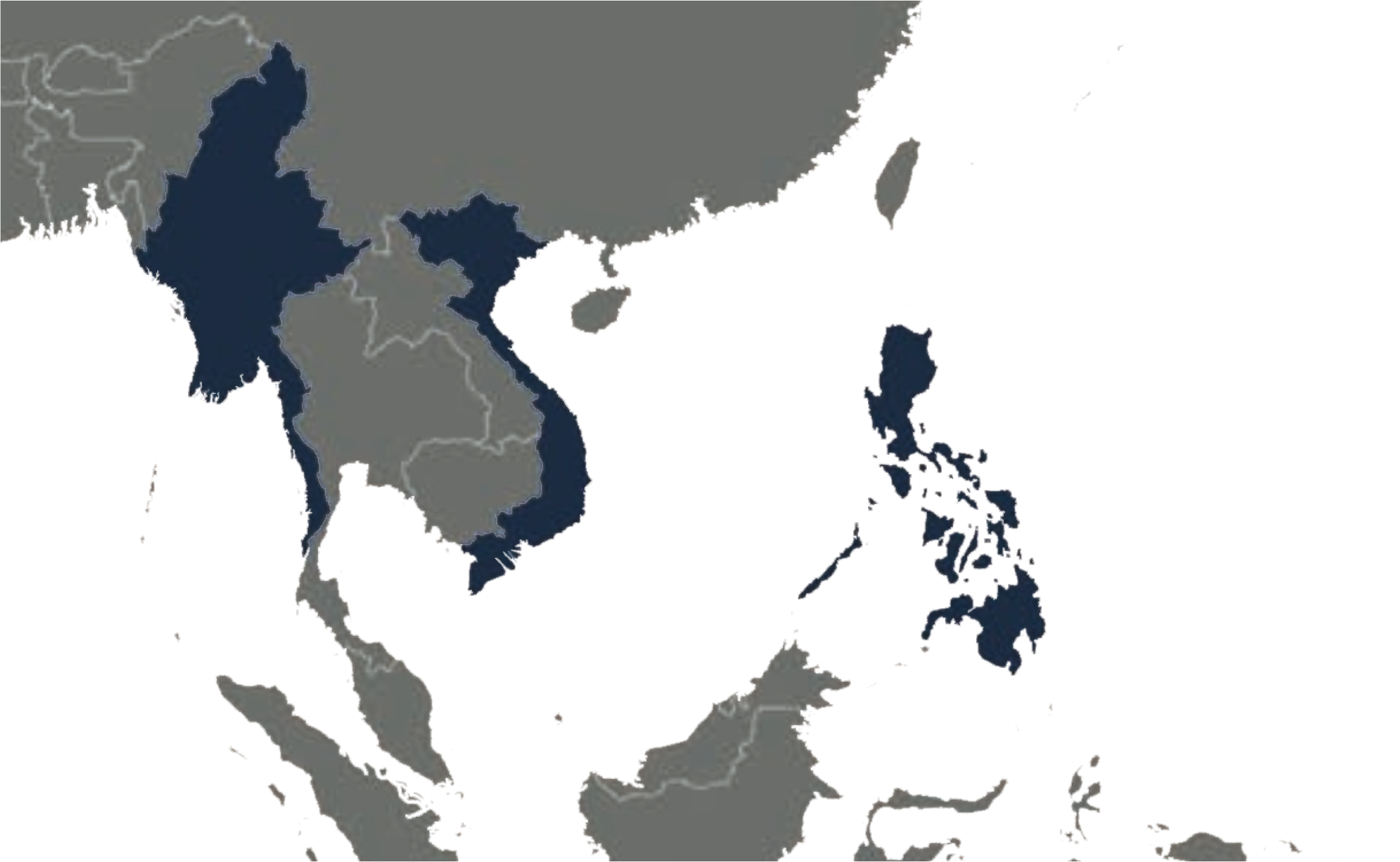 CFSI Operations 2013